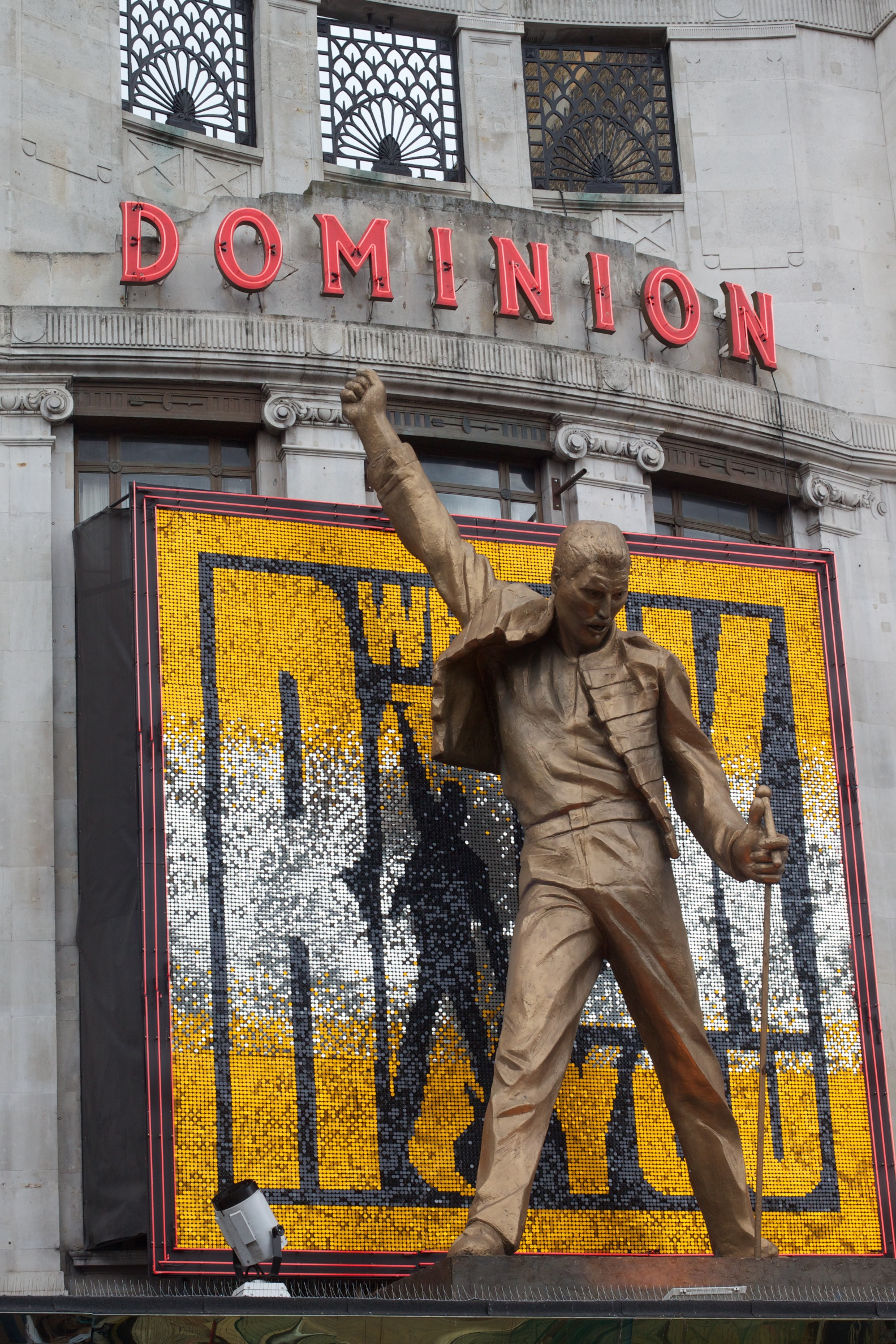 London Barking